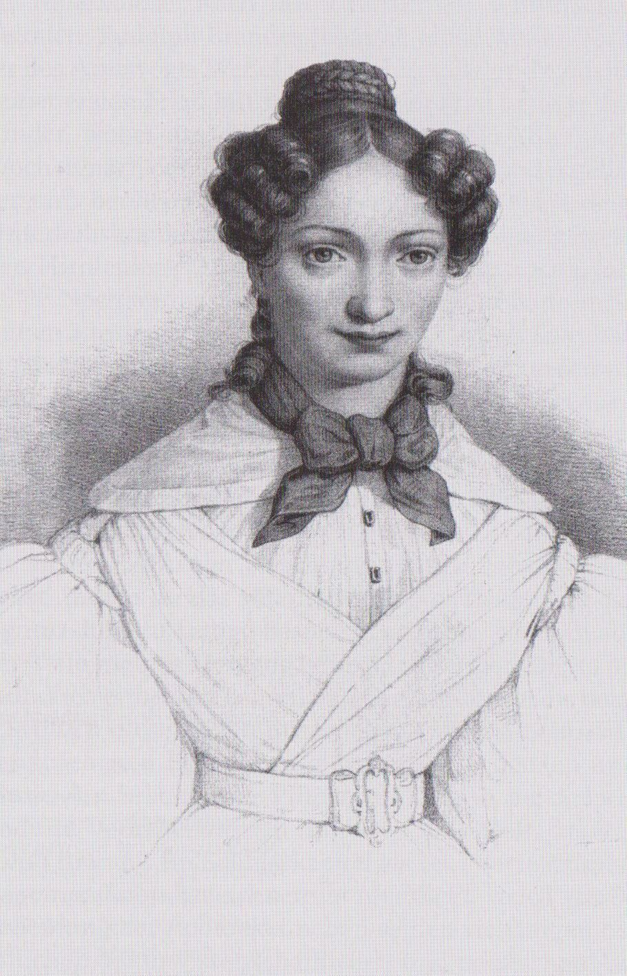 Henriette Louise BRANDES (1806-1834), um 1825; portrait by Eduard Gerhardt (1813-1888)